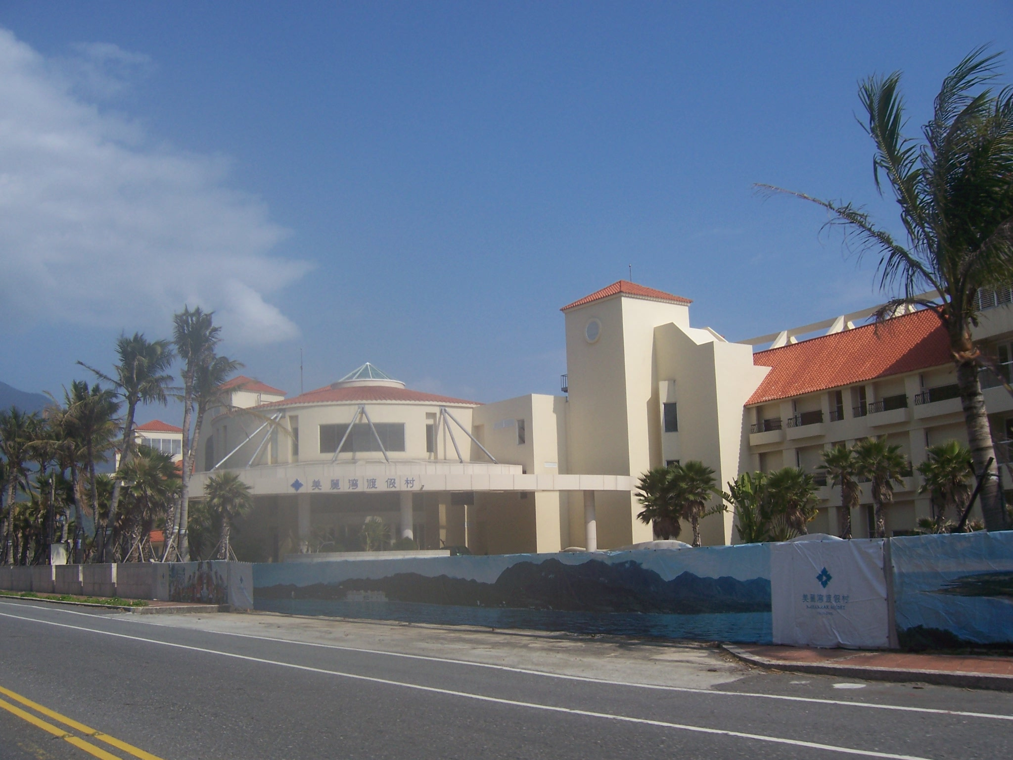 Construction site of Miramar Resort Taitung.